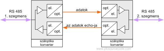 Profibus RS485 fiber optic with echo